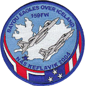 159th Fighter Wing Iceland Deployment 2004 - Emblem